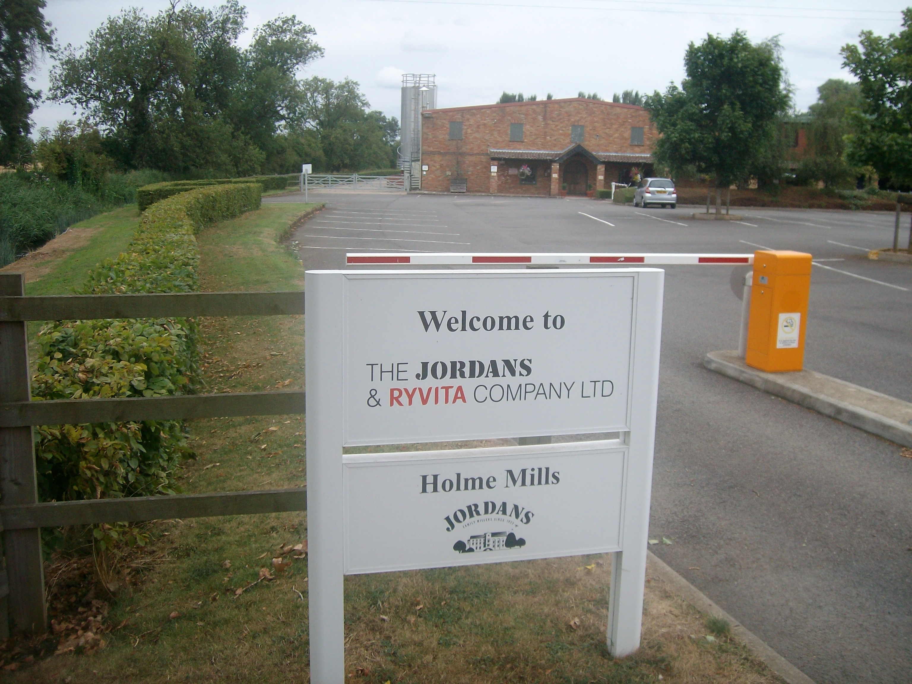 Jordans and Ryvita factory in Biggleswade